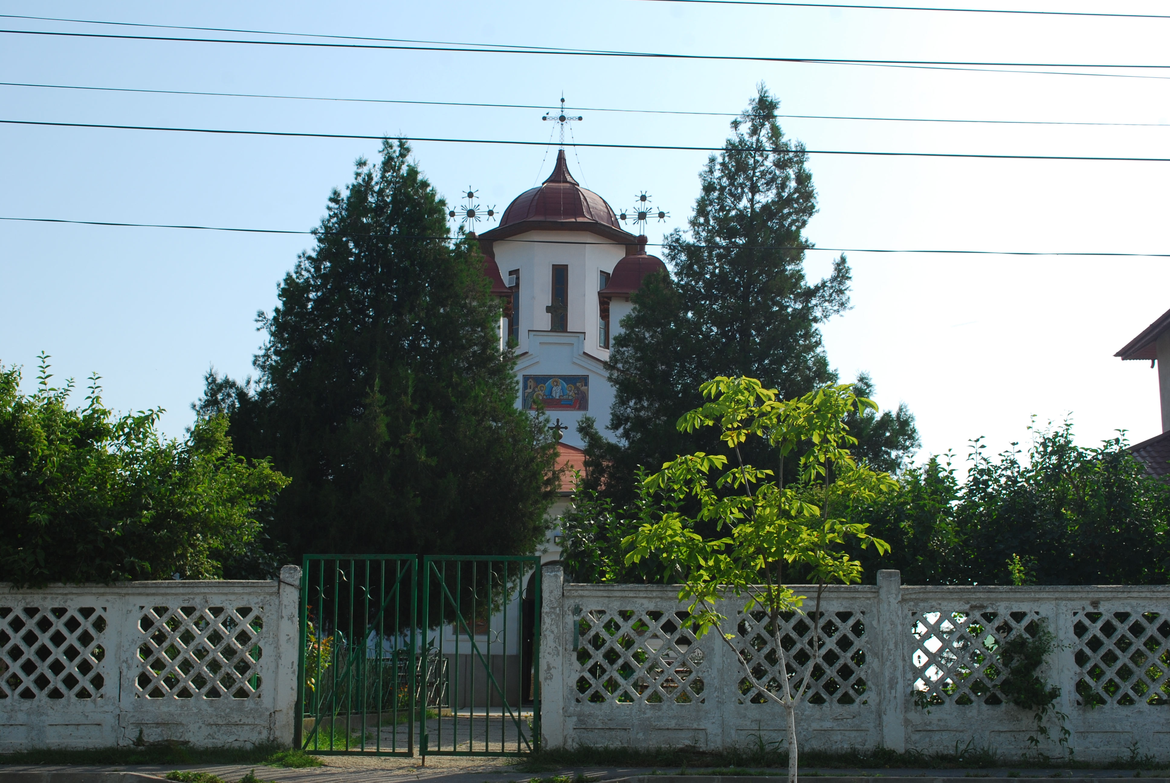 Church of the Assumption of Mary in Tânganu, Cernica commune, Ilfov County, Romania